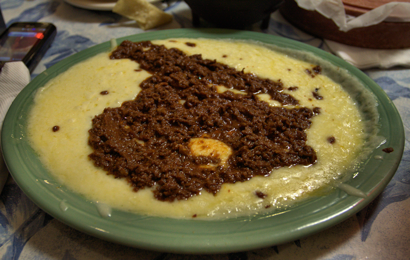 Queso Flameado made with quesillo and mexican chorizo served in Oaxaca de Juárez, Oaxaca, México